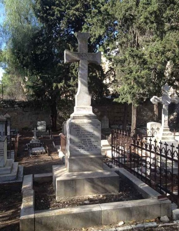 Friedrich (von) Braun (Kirchheim unter Teck *18 November 1850-31 May 1904* Jerusalem) was a Lutheran theologian from Germany. Since 1896 consitorial councillor, a rather high rank in the Evangelical State Church in Württemberg, he was much interested in Protestants of Württembergian descent in the Holy Land. Since 1897 he was the city dean, the spiritual head of all Protestant congregations within the Stuttgart deanery of the Evangelical State Church in Württemberg. On his way to the inauguration of the Immanuel Church in Jaffa (Tel Aviv), he died from an infection (dysentery) he had caught underways in Egypt.